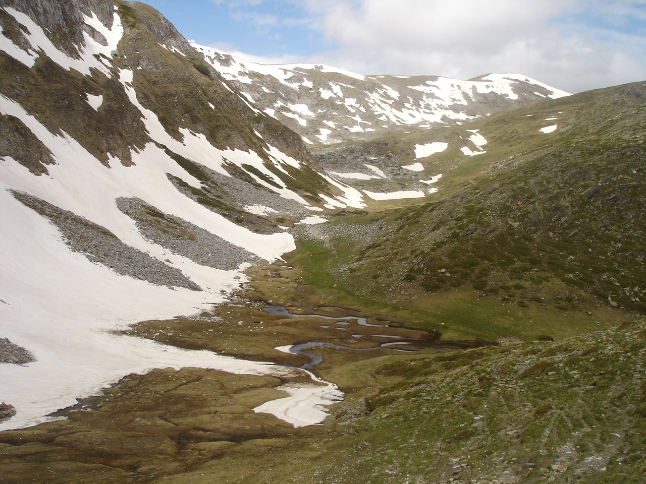 Springs of Kadina Reka, on Mokra Mountain, Macedonia